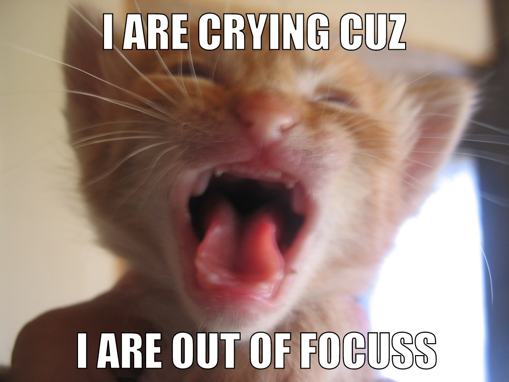 Lolcat from :Image:Cat crying.jpg Text ideated by cary at #wikimedia-commons.